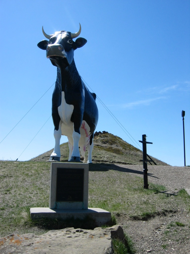 Salem Sue (or The World's Largest Holstein Cow) in New Salem, North Dakota.